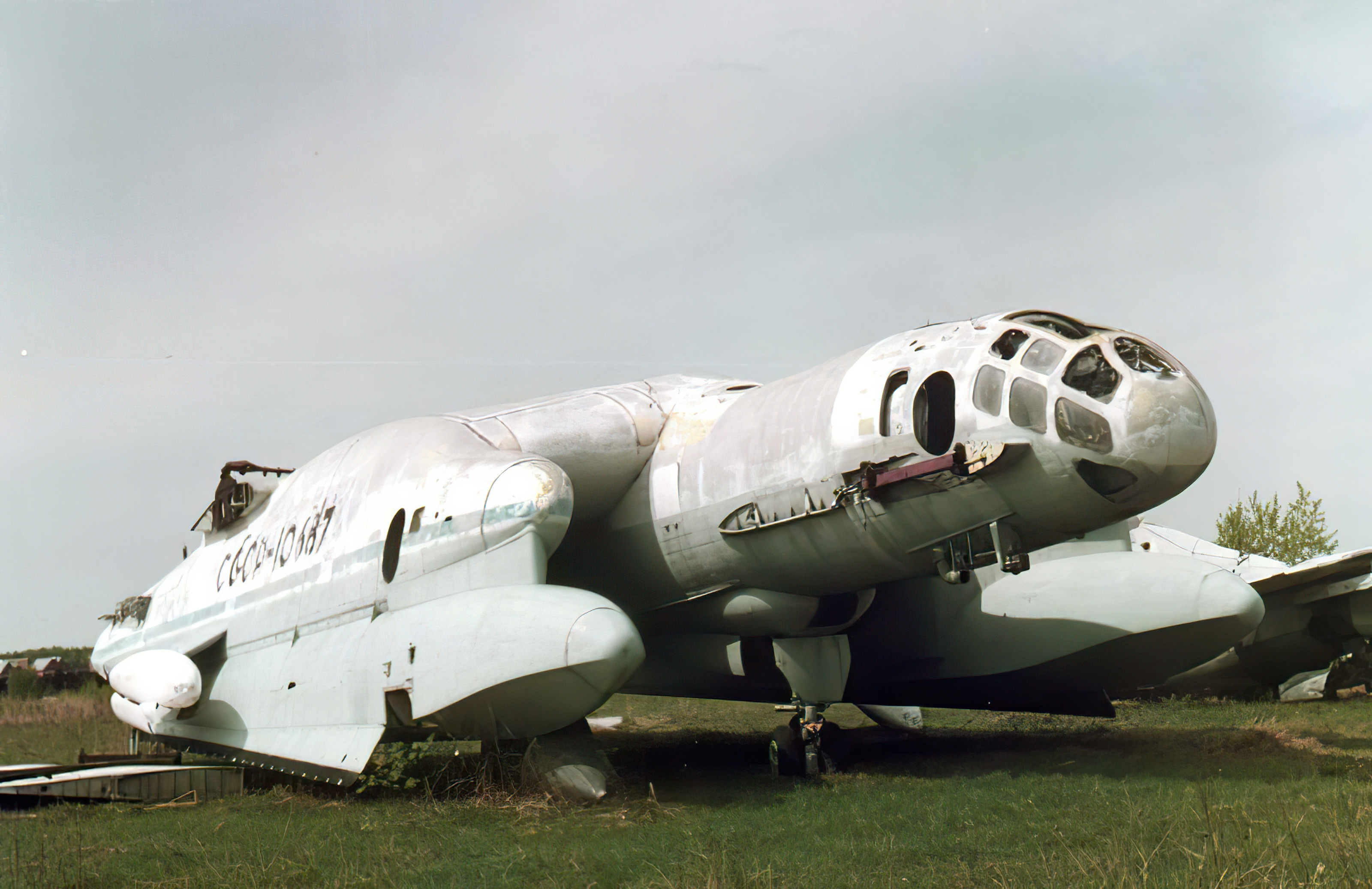 Remnats of R.L.Bartini VVA-14 in Air Force Museum, Monino, 1998